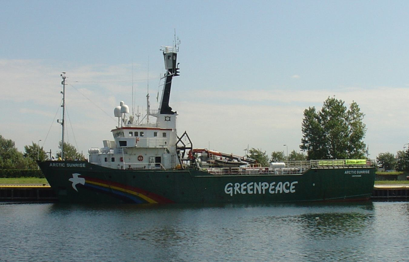 Greenpeace ship, the arctic sunrise. Photo taken during a promotion visit to the harbor of Vlissingen, the Netherlands on 16-08-2006